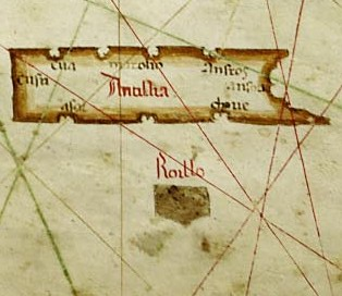 Part of old map made by Albino de Canepa, showing the phantom islands Antillia and Roillo.